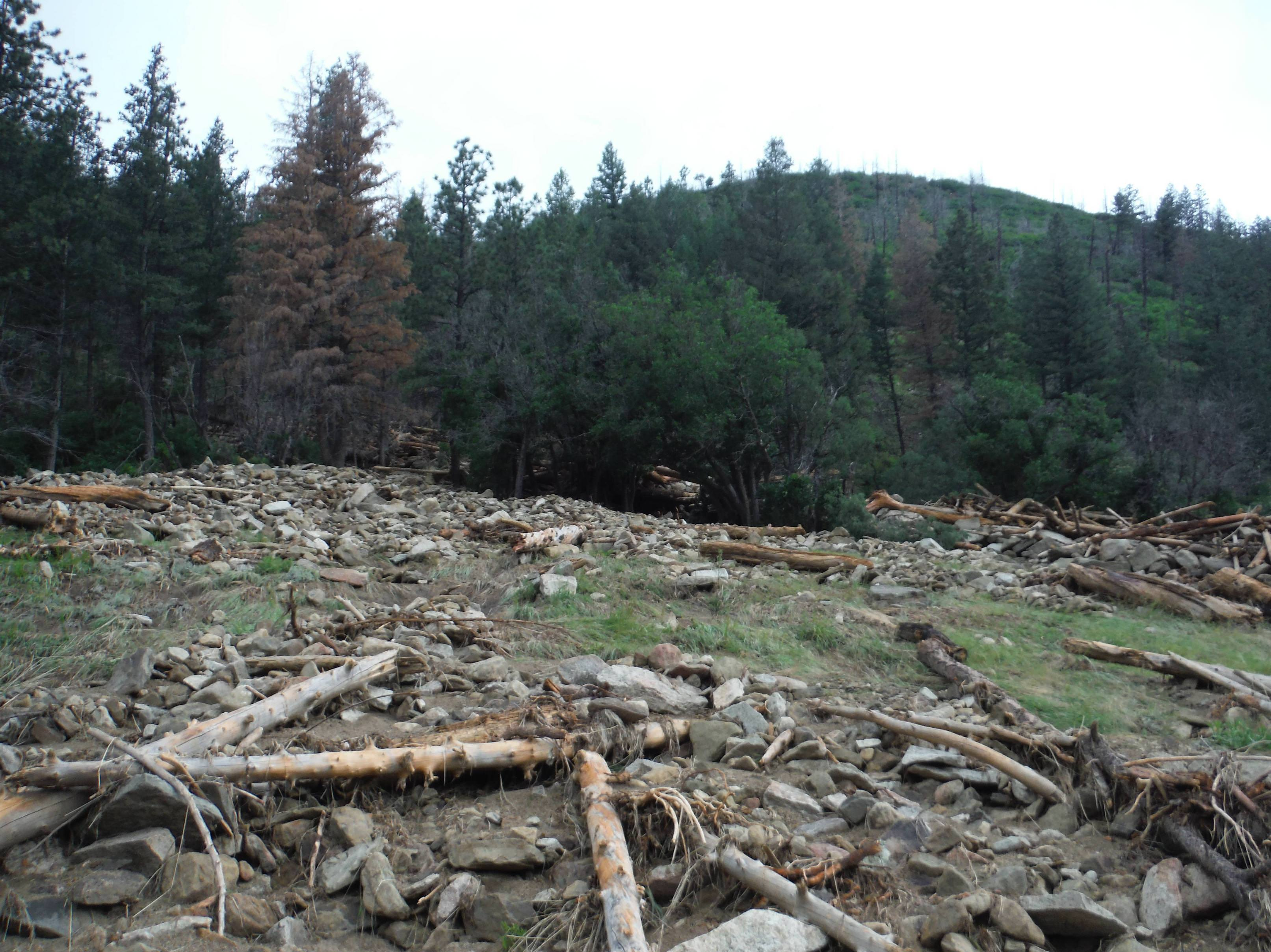 Accumulated brush at Philmont resulting from the 2015 Philmont Scout Ranch flash flood.